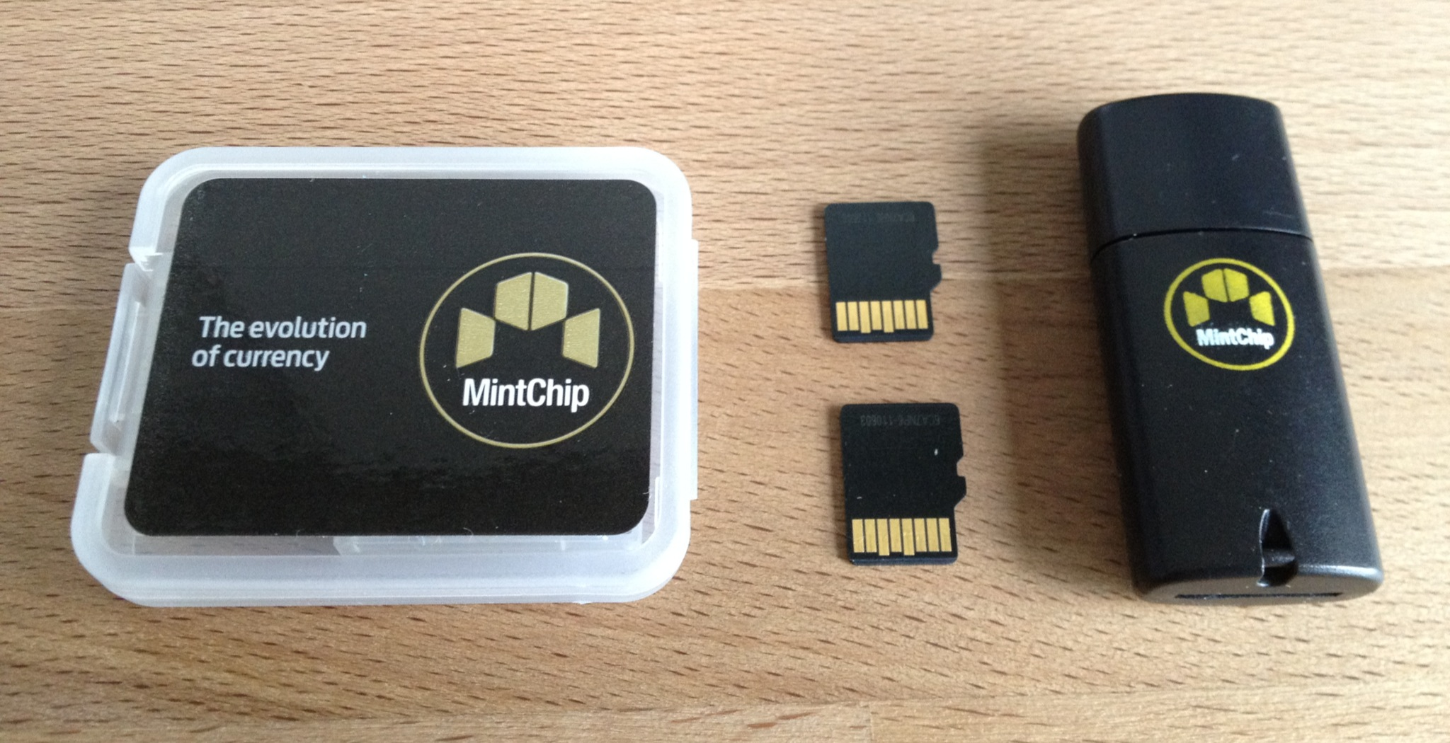 This shows a pair of MintChips, supplied by the Royal Canadian Mint, their packaging, and a USB MicroSD adapter. April 2012.